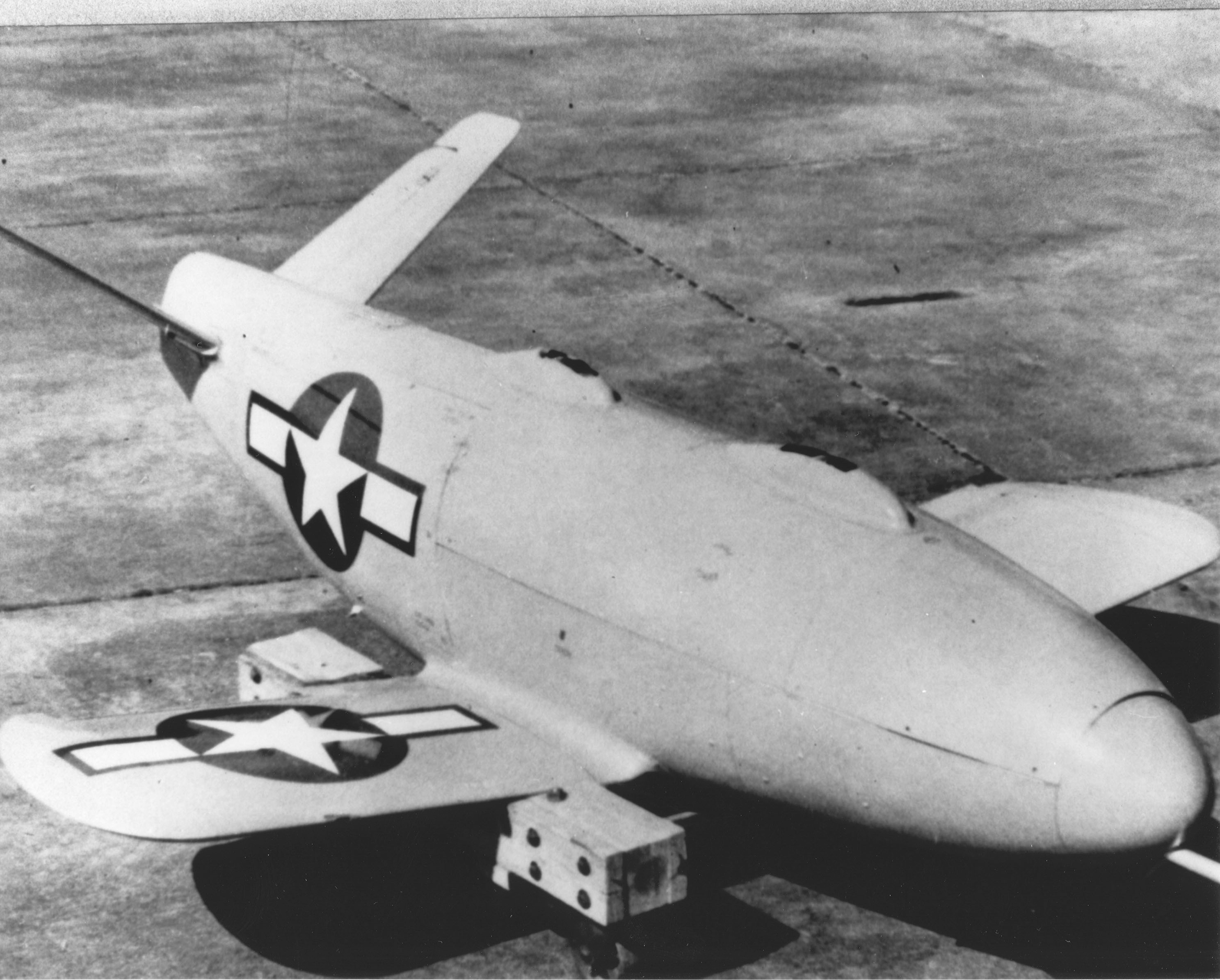 A U.S. Navy McDonnell LBD-1 Gargoyle glide bomb on a bomb cart at Naval Air Station Mojave, California (USA).